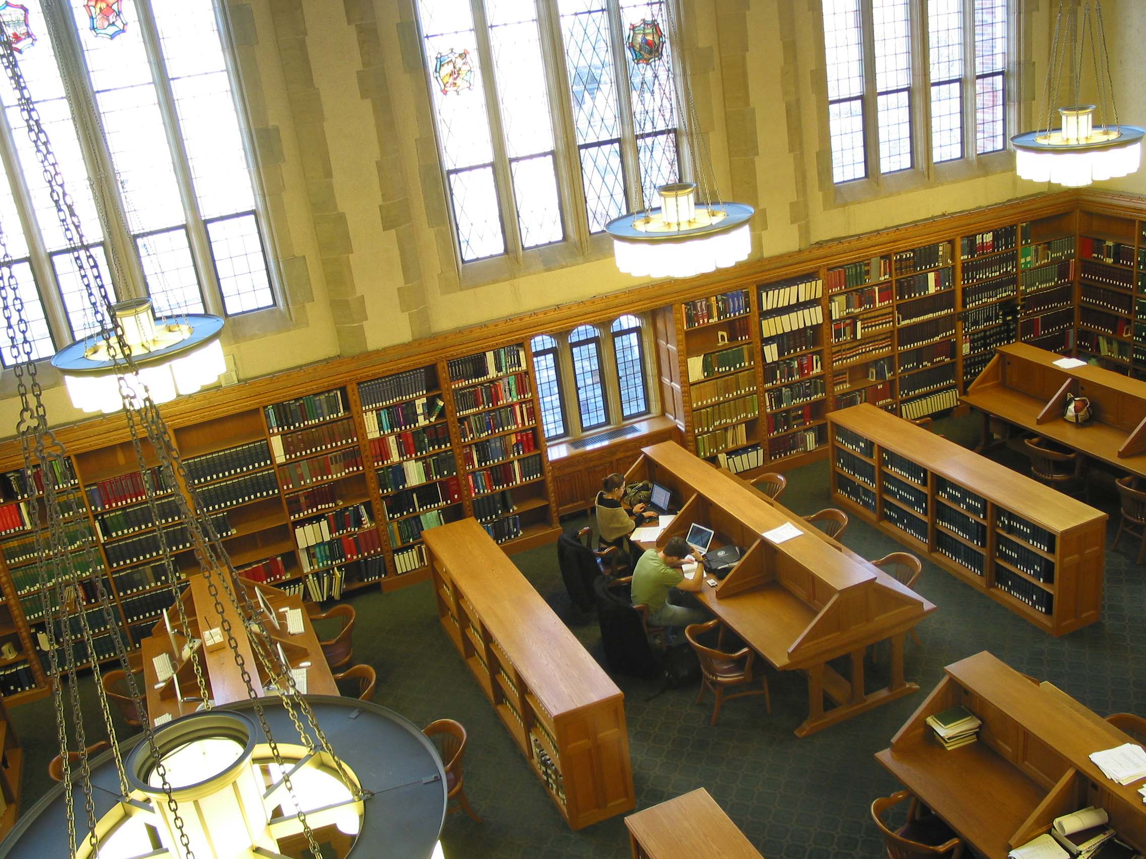 Yale Law School Library Reading Room (L3)